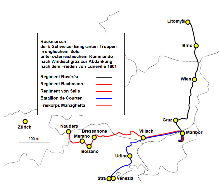 Retreat for disbandement in Windischgraz of the 5 british salaried Swiss Emigrant Troupes under austrian command after the treaty of Lunéville 1801